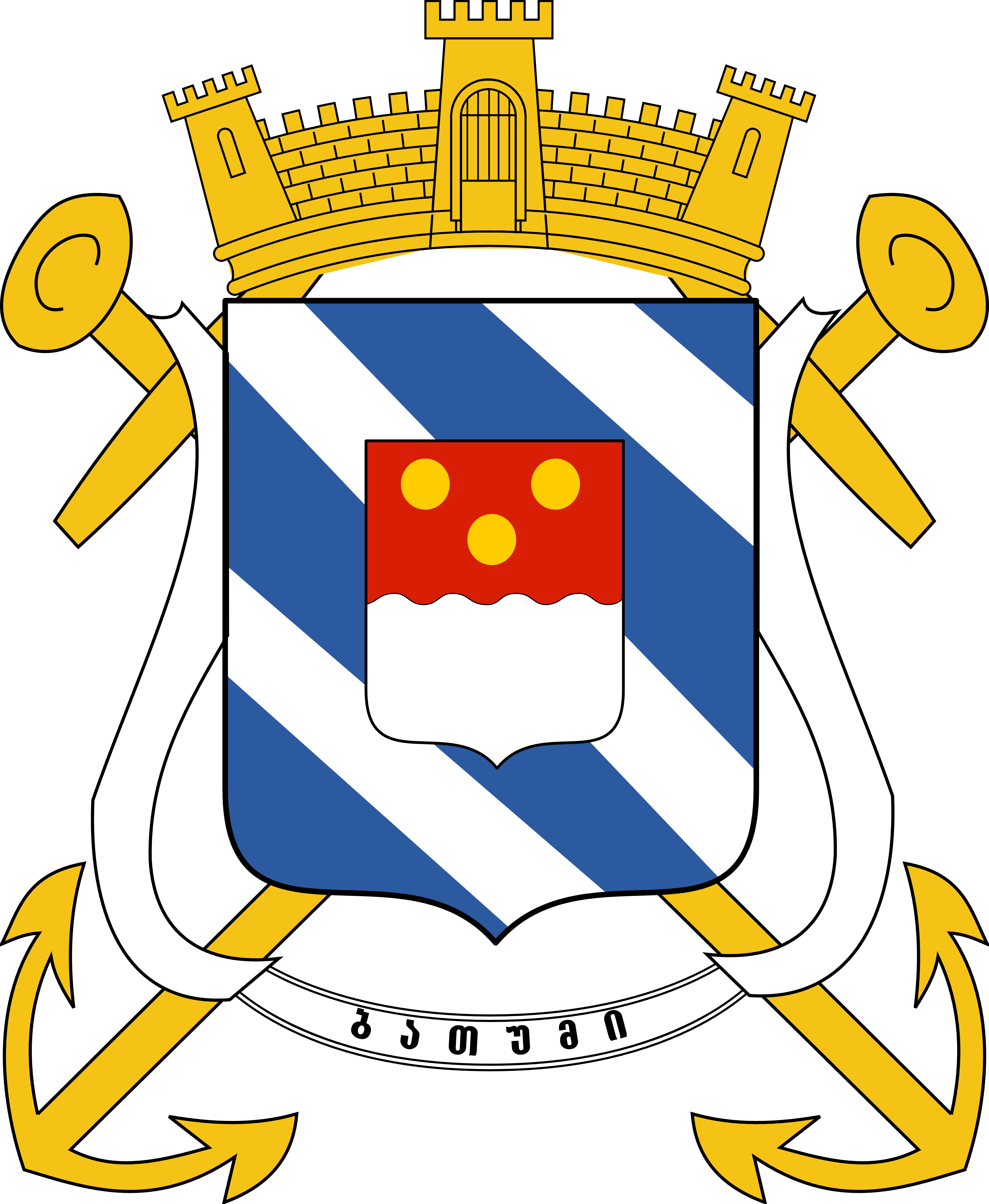 Batumi City Coat of Arms